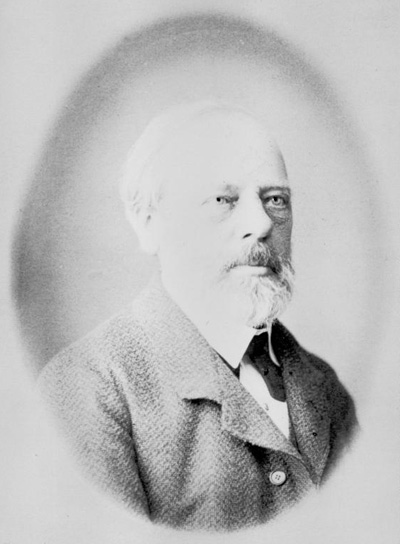 Austrian music writer Selmar Bagge (1823—1896)